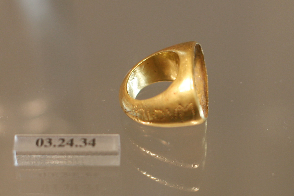 Metropolitan Museum of Art # 03.24.34 Photographer: Katie Chao